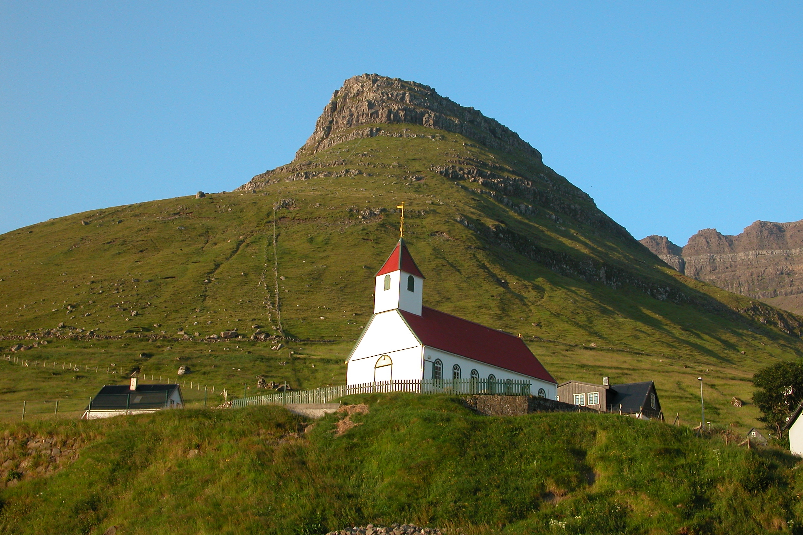 Village of Kunoy, Faroe Islands.